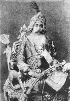 Maharaja Raghbir Singh, the cultured ruler of the princely state of Jind, (1864-1887). Photographed 1875, Punjab.